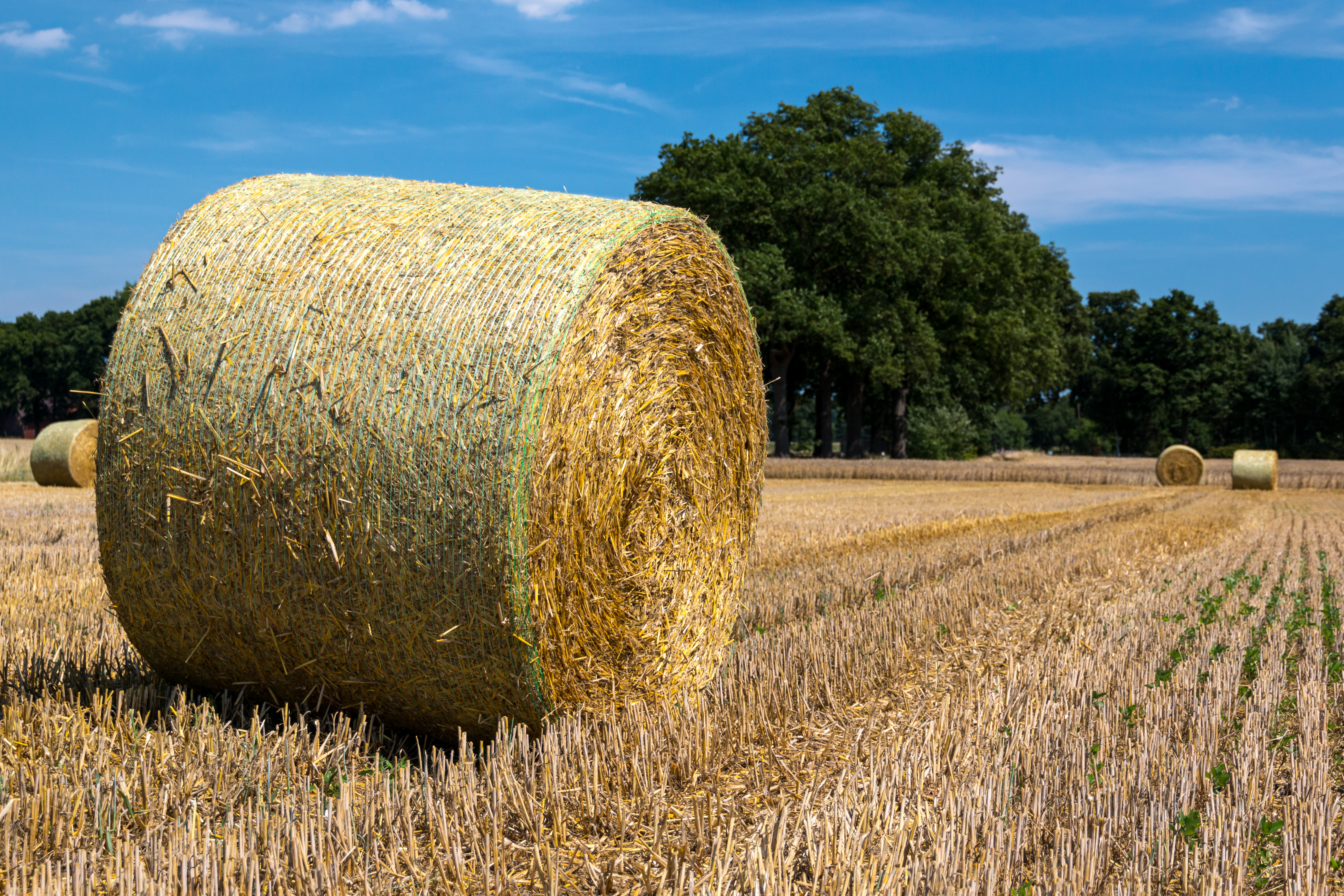 Straw bales in a field in the Börnste hamlet, Kirchspiel, Dülmen, North Rhine-Westphalia, Germany